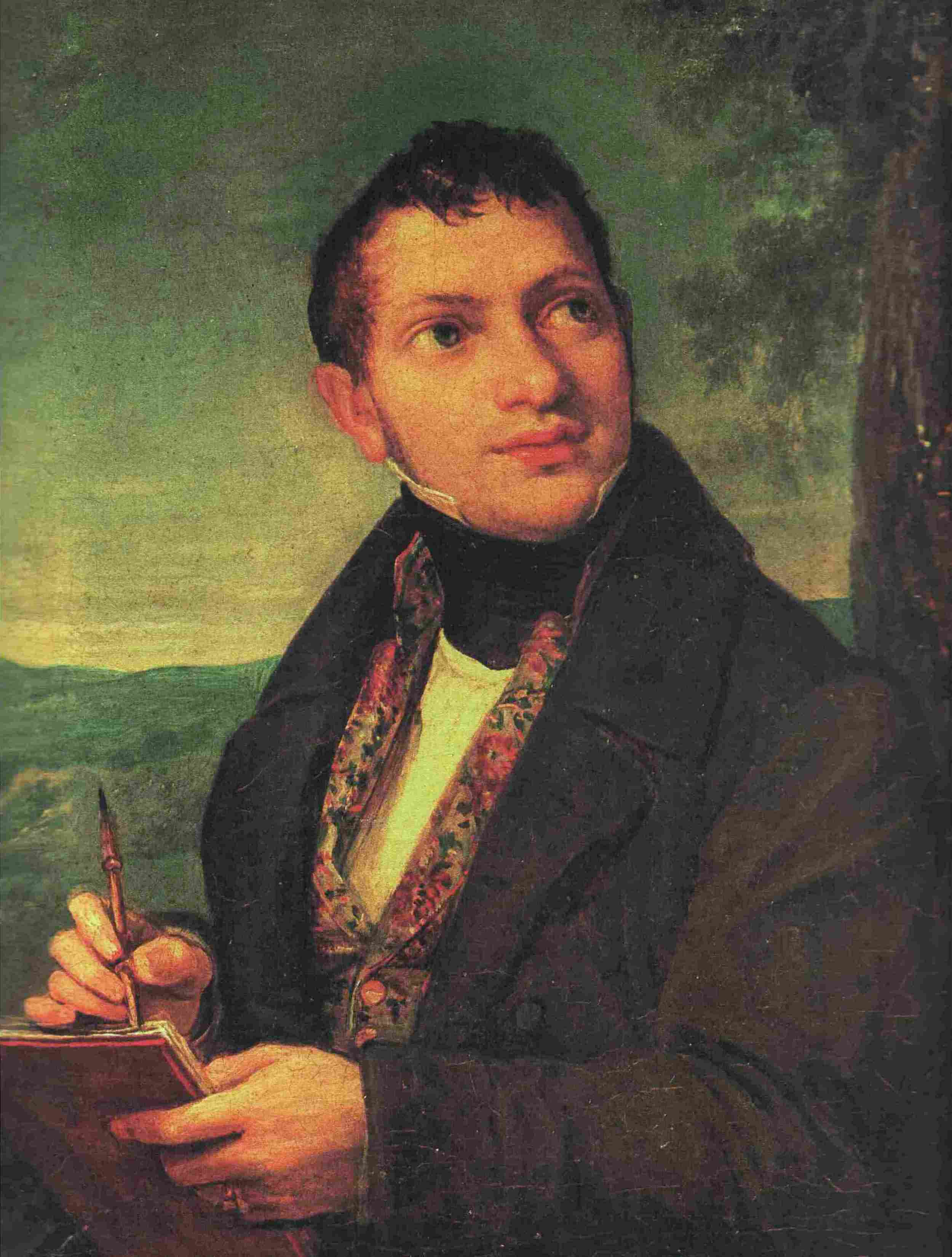 Self-portrait of Giuseppe Drugman, italian painter from Parma